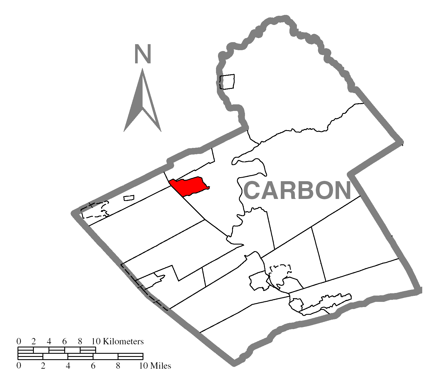 A map of Carbon County showing Weatherly, Pennsylvania (alternate) highlighted on the map.